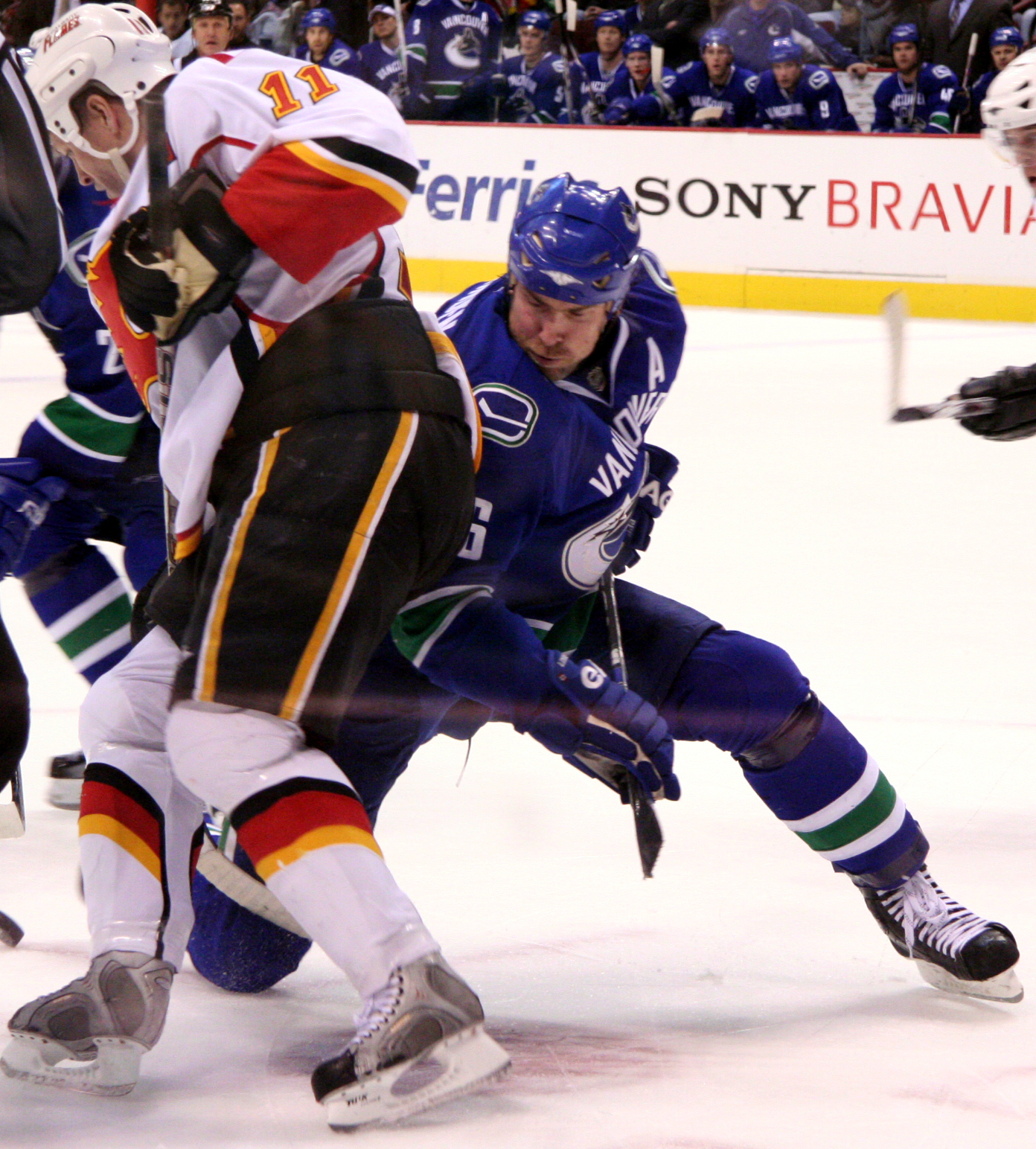 Vancouver Canucks forward Trevor Linden taking a faceoff against Calgary Flames forward Owen Nolan in 2007.